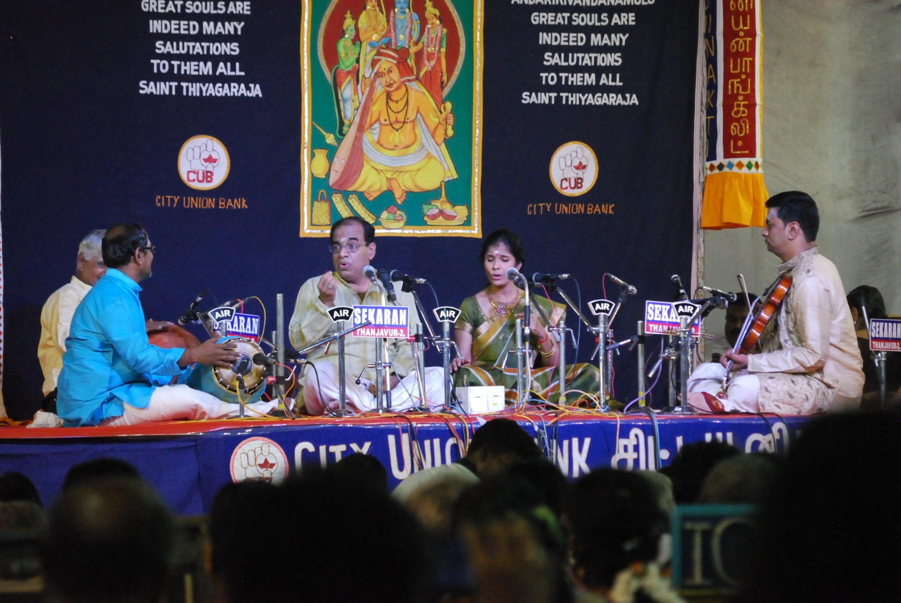 Carnatic music performance on the 168th Aradhana Festival in Thiruvaiyaru near Thanjavur (Tanjore) in the southindian state of Tamil Nadu